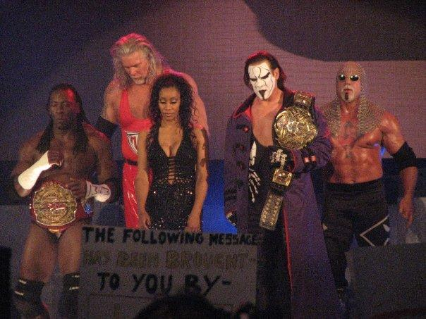 The Main Event Mafia (without Kurt Angle) at Final Resolution 2008